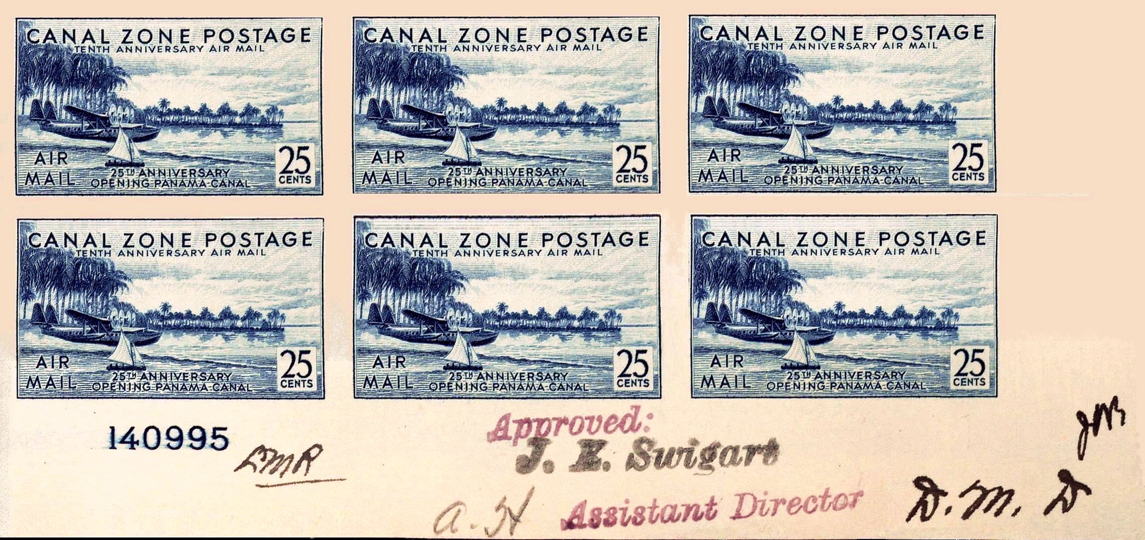 US Canal Zone Airmail Postage, Plate Block proof The 25-cent Airmail stamp (Scott# C-18) The series honored the 10th anniversary of airmail service in the Canal Zone along with the 25th anniversary of the Panama Canal opening. 200,000 copies of the 25-cent airmail were shipped to the Isthmus, but only a little over 82,000 were actually sold. The unsold remaining stamps were destroyed on April 12, 1941.